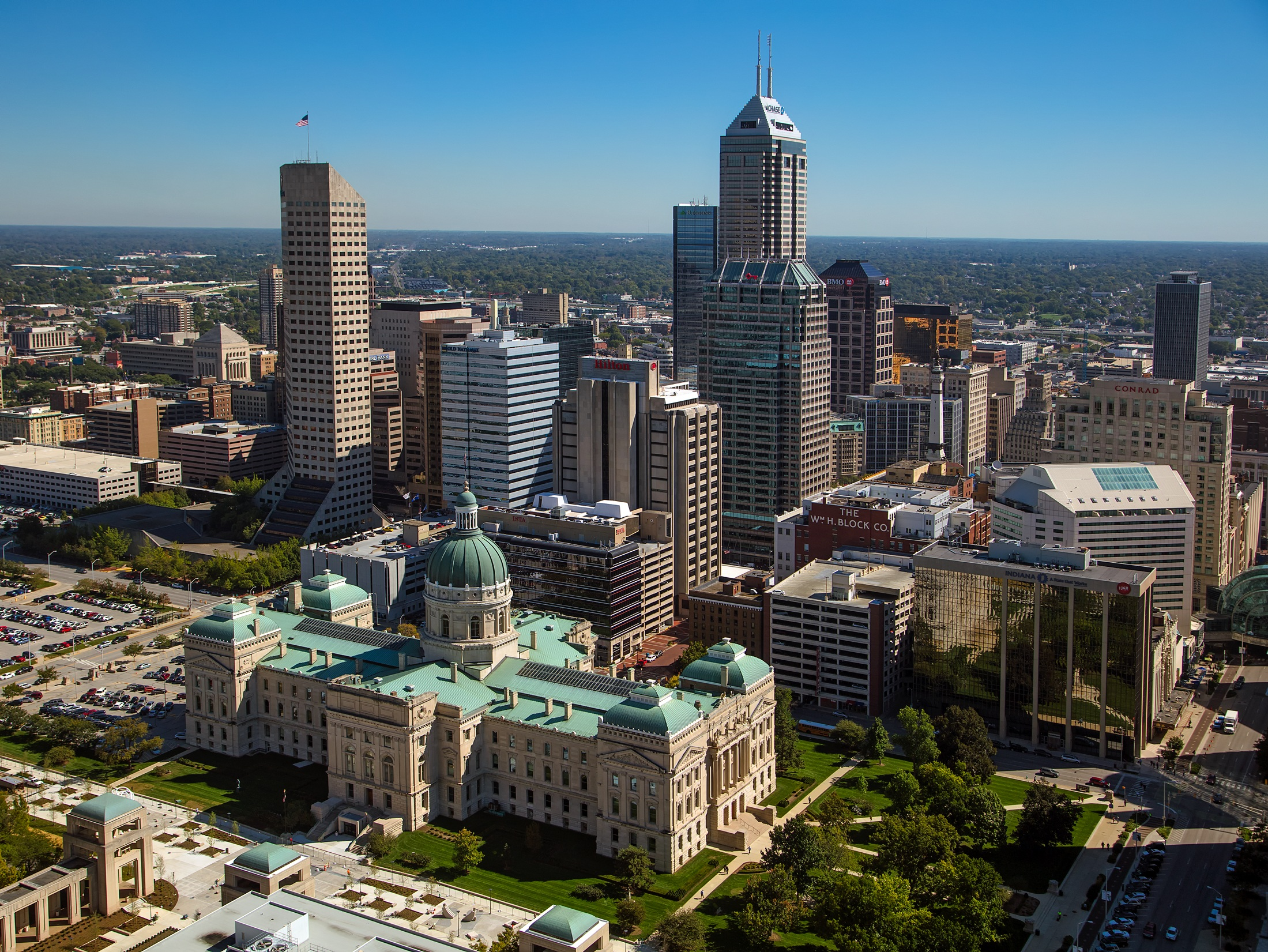 Aerial looking east northeast across downtown Indianapolis. The Indiana Statehouse is visible in the foreground.